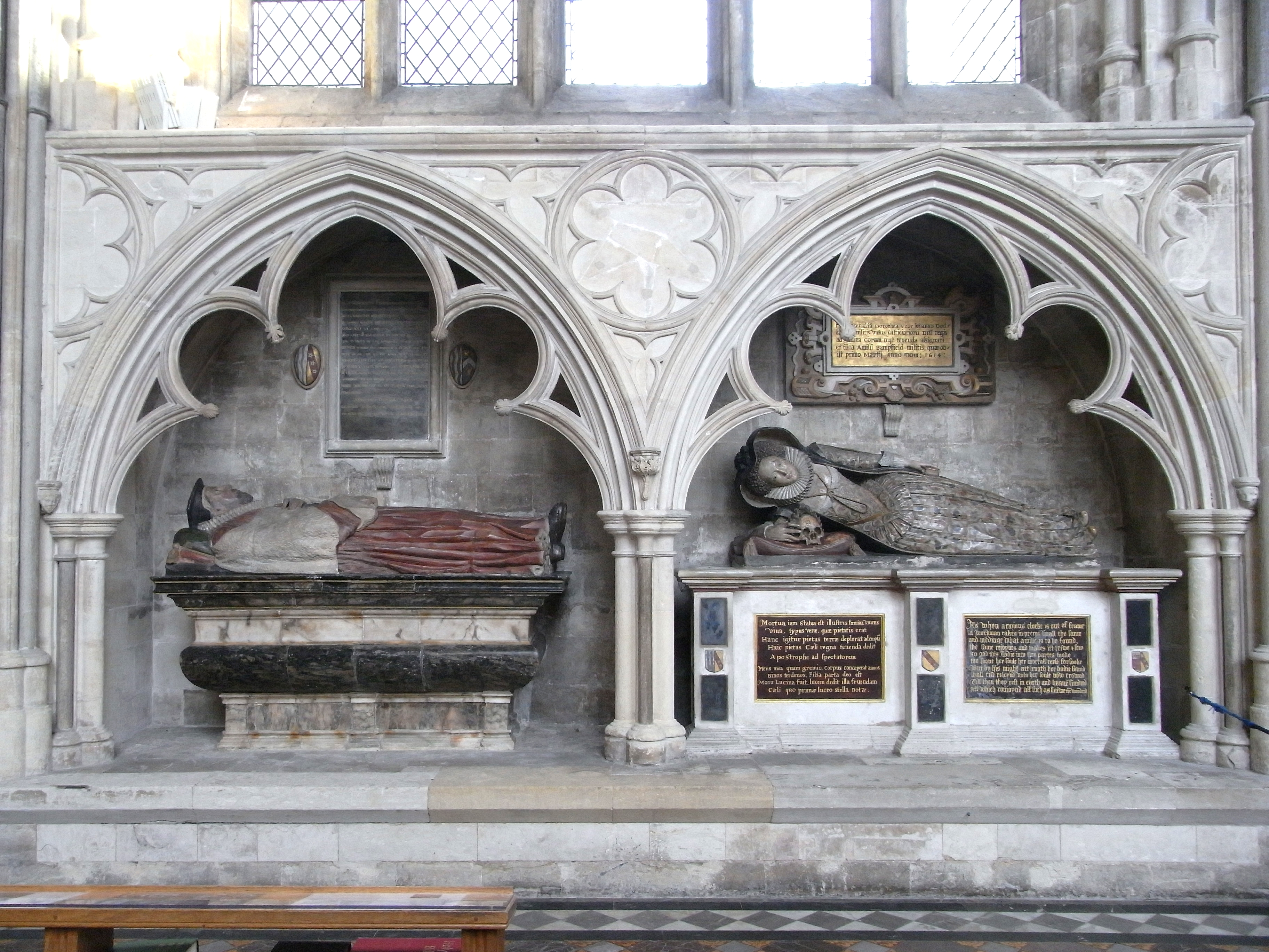 Monuments to Sir John Doddridge (1555–1628) and his second wife Dorothy Bampfield (died 1 March 1614) on the north wall of the Lady Chapel of Exeter Cathedral, Exeter, England, UK.